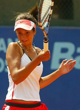 Picture of bulgarian tennis player Alexandrina Naydenova